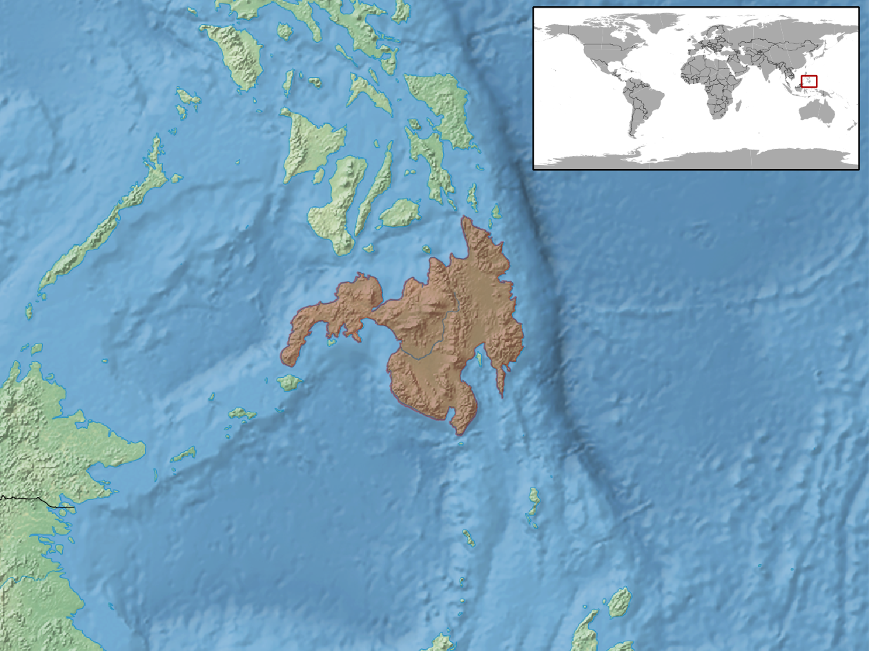 geographic distribution of Tropidophorus partelloi